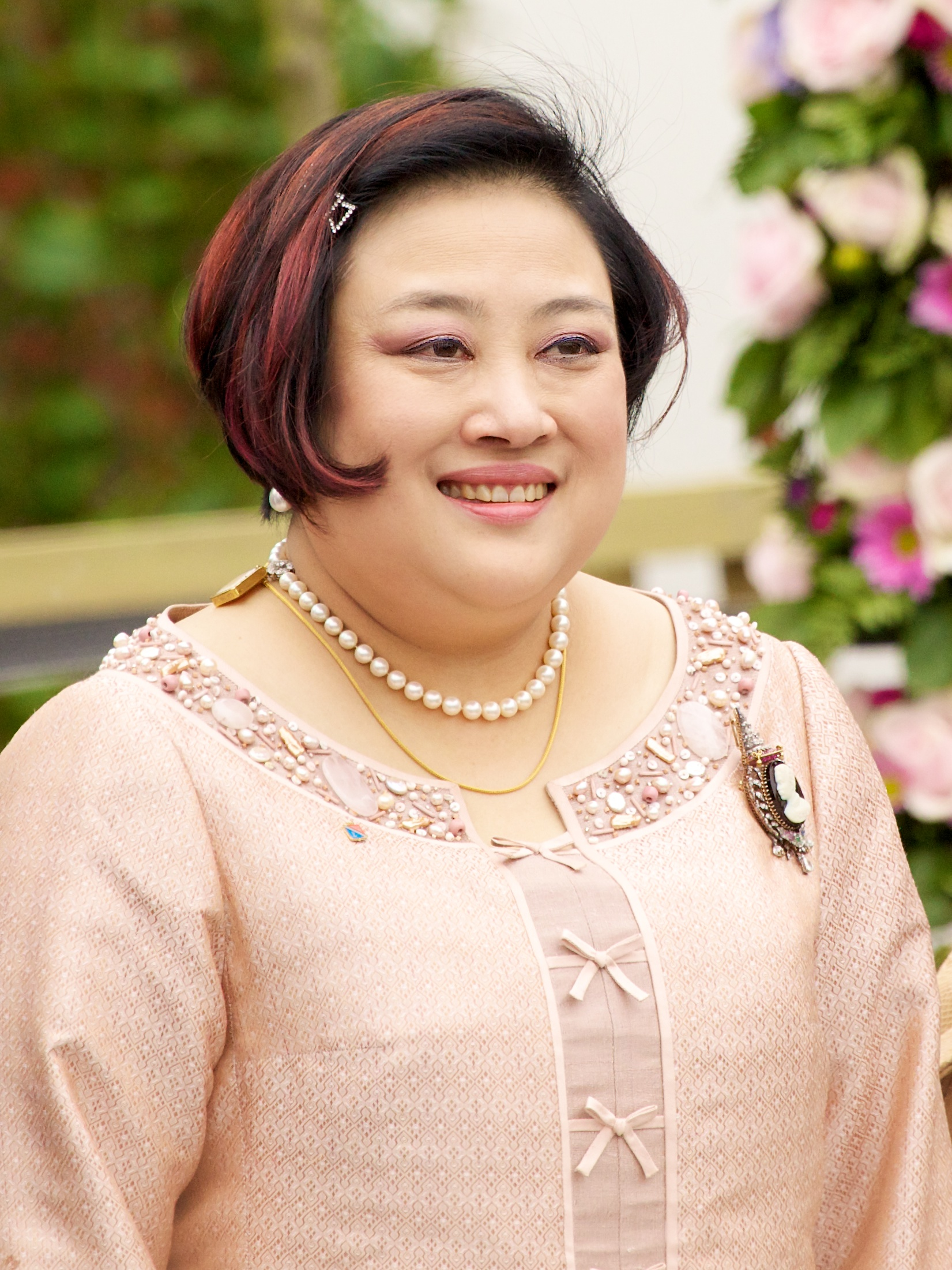 Princess Soamsavali Kitiyakara of Thailand in Norway.